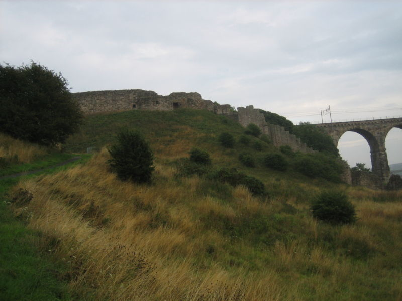 Motte and walls of Berwick Castle